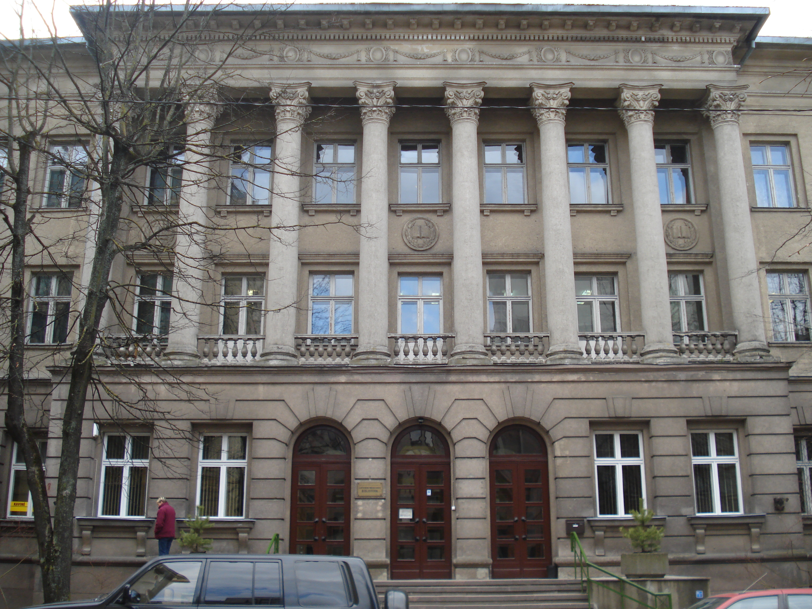 The Lithuanian Library of Medicine. Main facade. Vilnius, Kaštonų g. 7